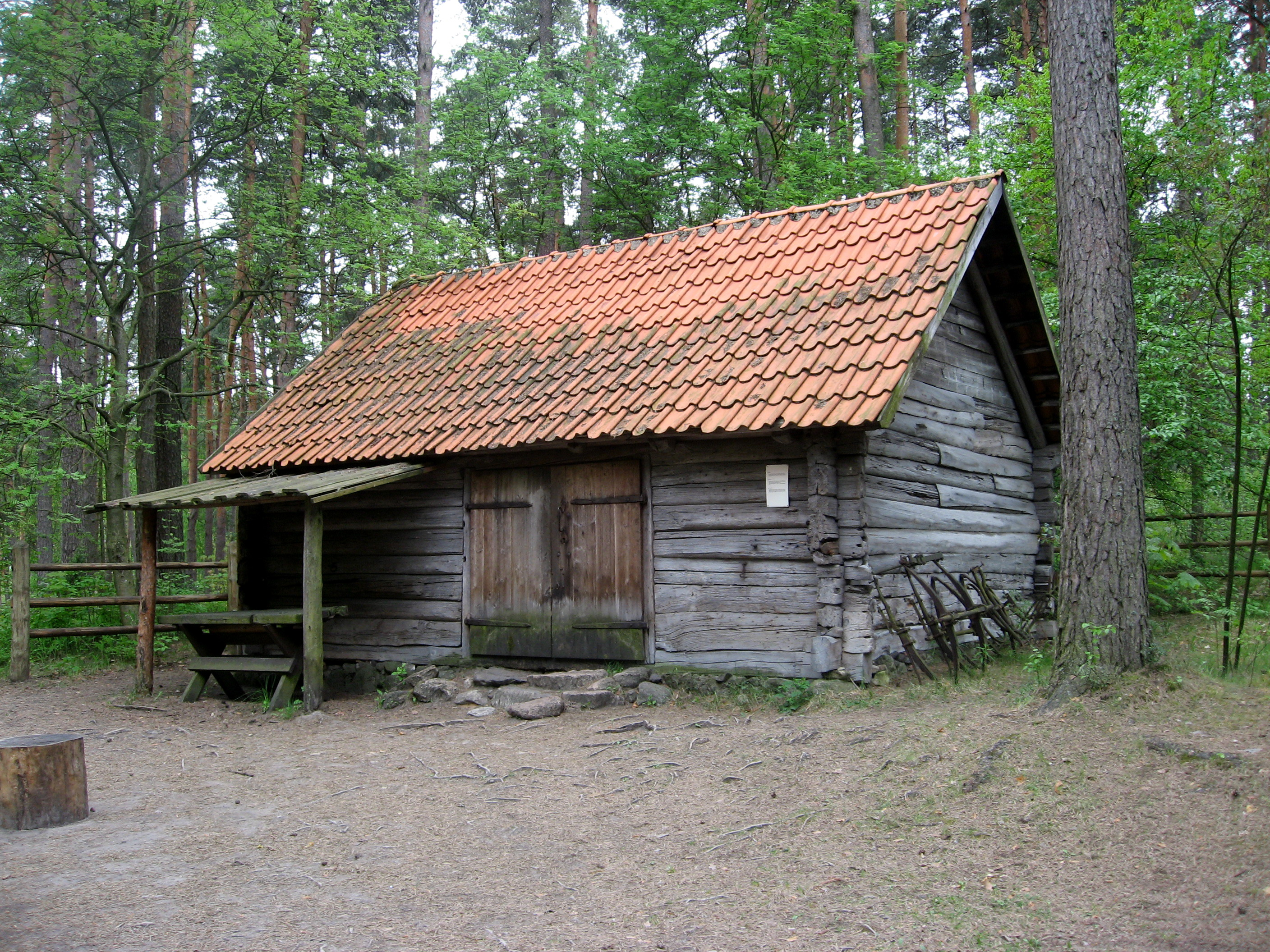 Latvian smithy (with modern ceramic roof tiles), originally built around 1880 at Mērsrags, Courland, rebuilt at the Latvian Ethnographic Open Air Museum